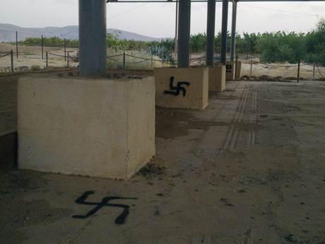 Antisemitic Vandalism in ancient synagouge in Naaran